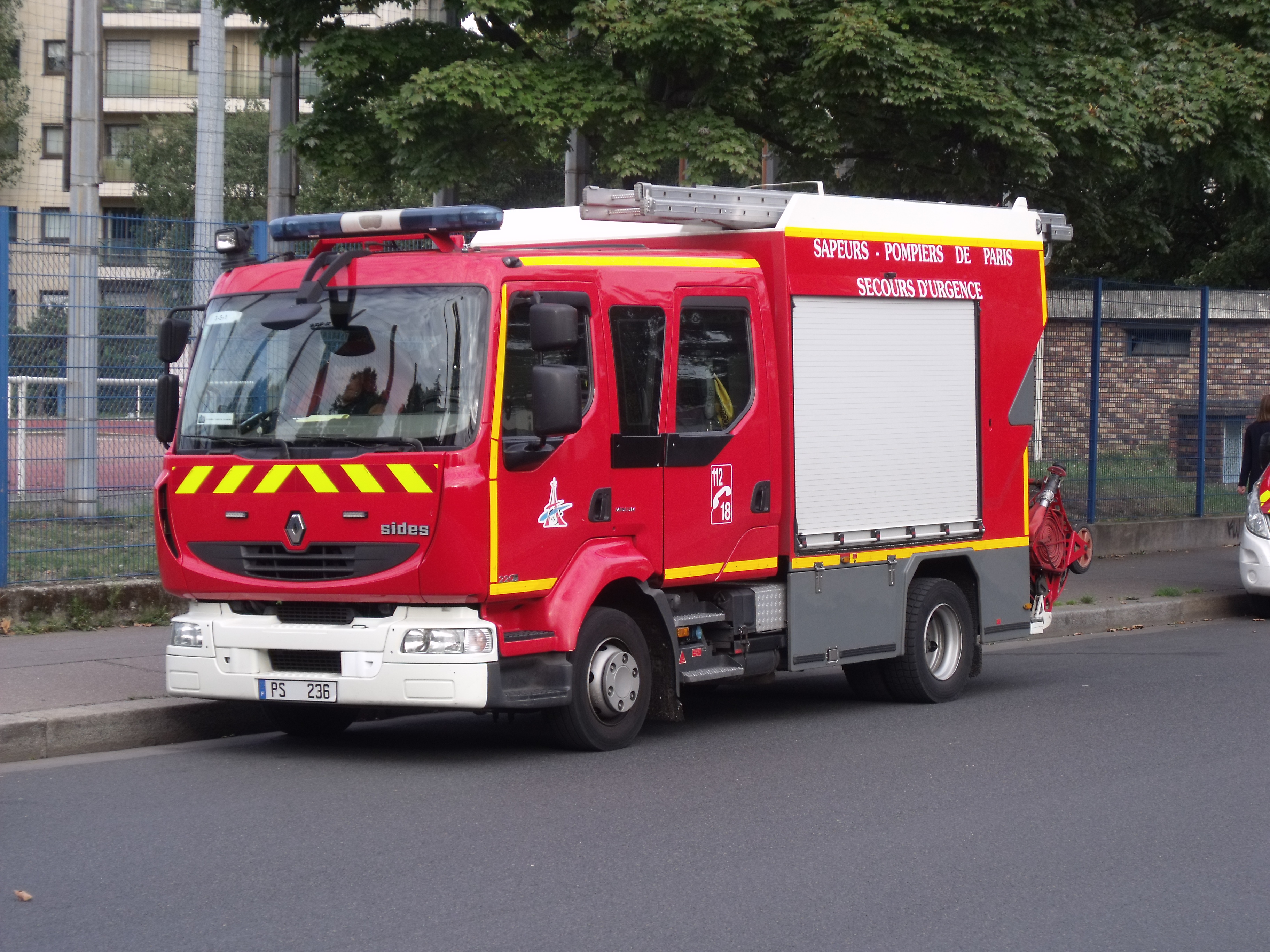 This truck is used by Paris Fire Brigade as a fire truck, light ambulance, and road assistance.